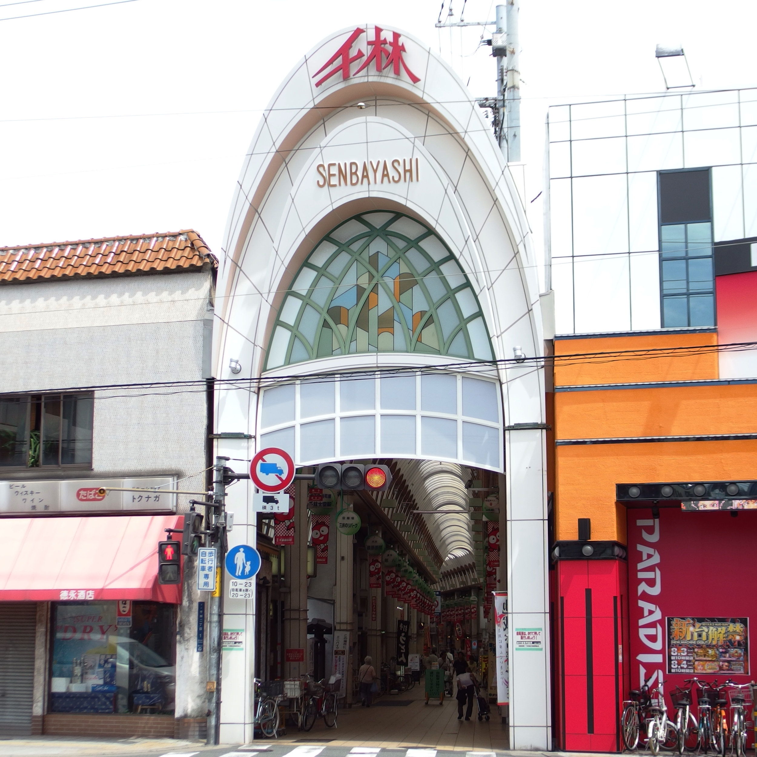 Sembayashi_Shopping_Mall, Osaka, Osaka prefecture, Japan